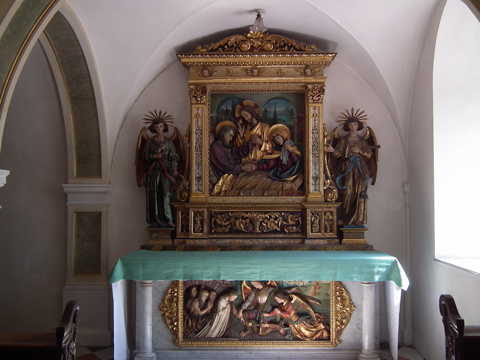 Abbey of Muri-Gries / Church of St. George Native nameAbbazia di Muri-Gries (Abtei Muri-Gries)LocationBolzano, ItalyCoordinates46° 30′ 11″ N, 11° 20′ 04″ E